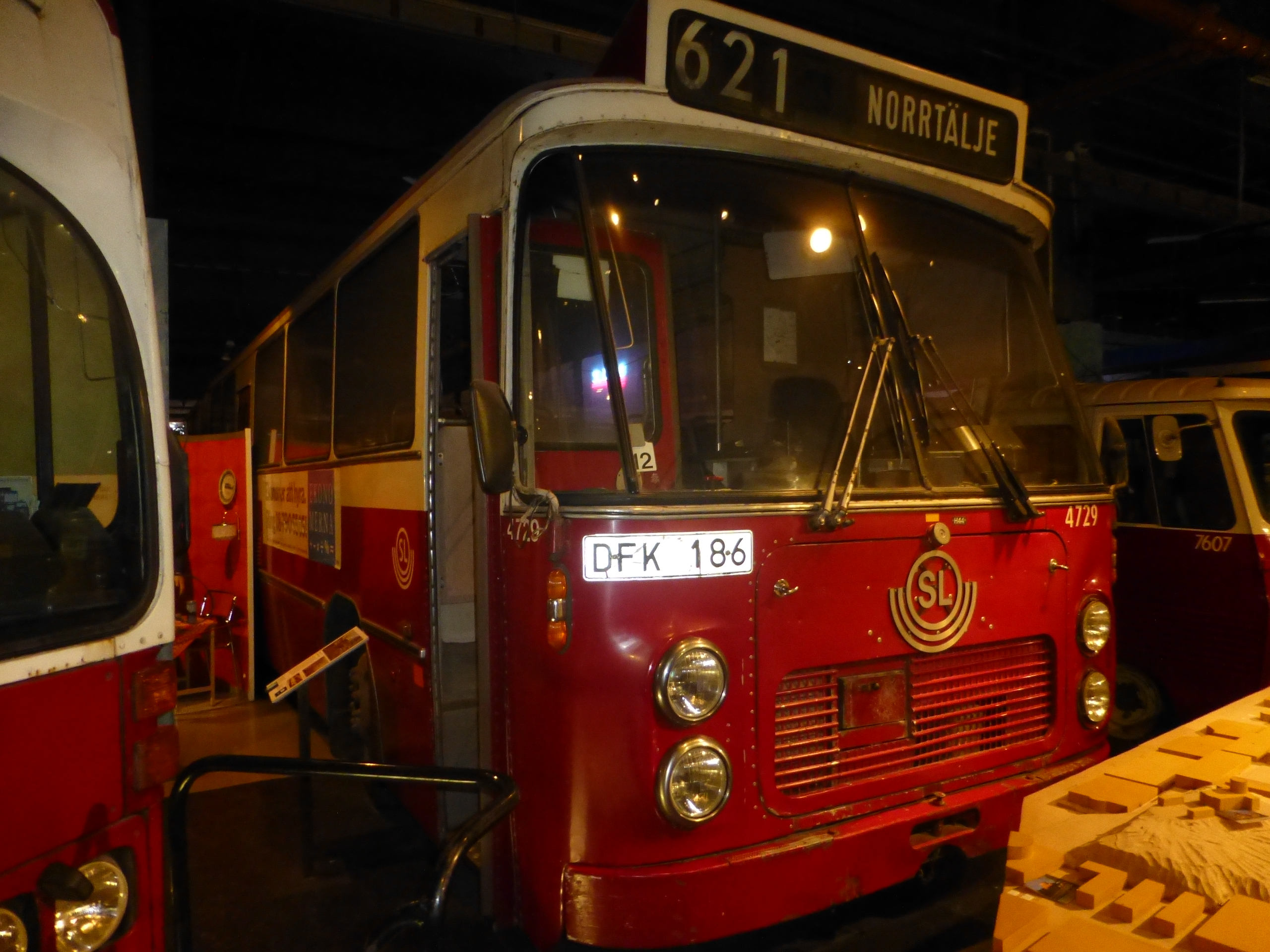 Articulated bus from Stockholm SL H44 4729 from 1972 at Spårvägsmuseet in Stockholm.